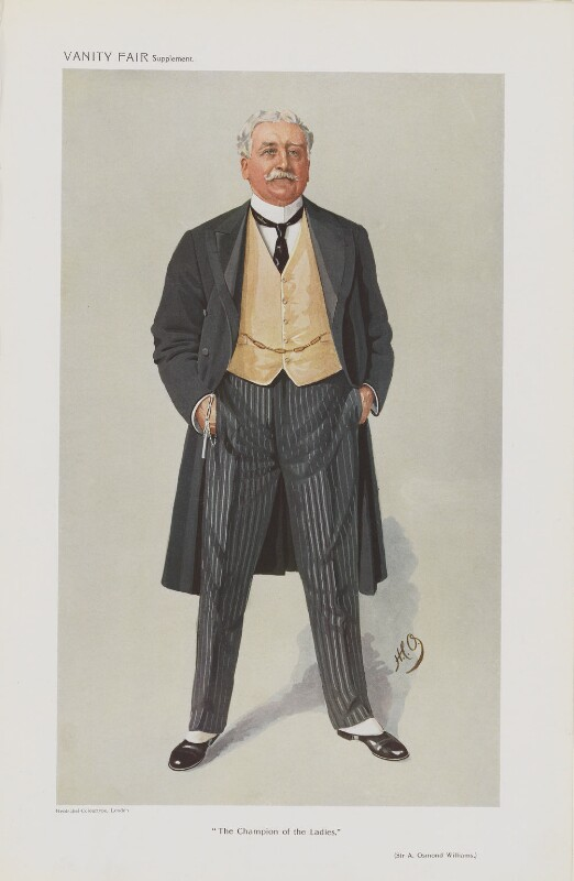 Men of the Day No.1201: Caricature of Sir AO Williams Bt MP. Caption reads: "The Champion of the Ladies"